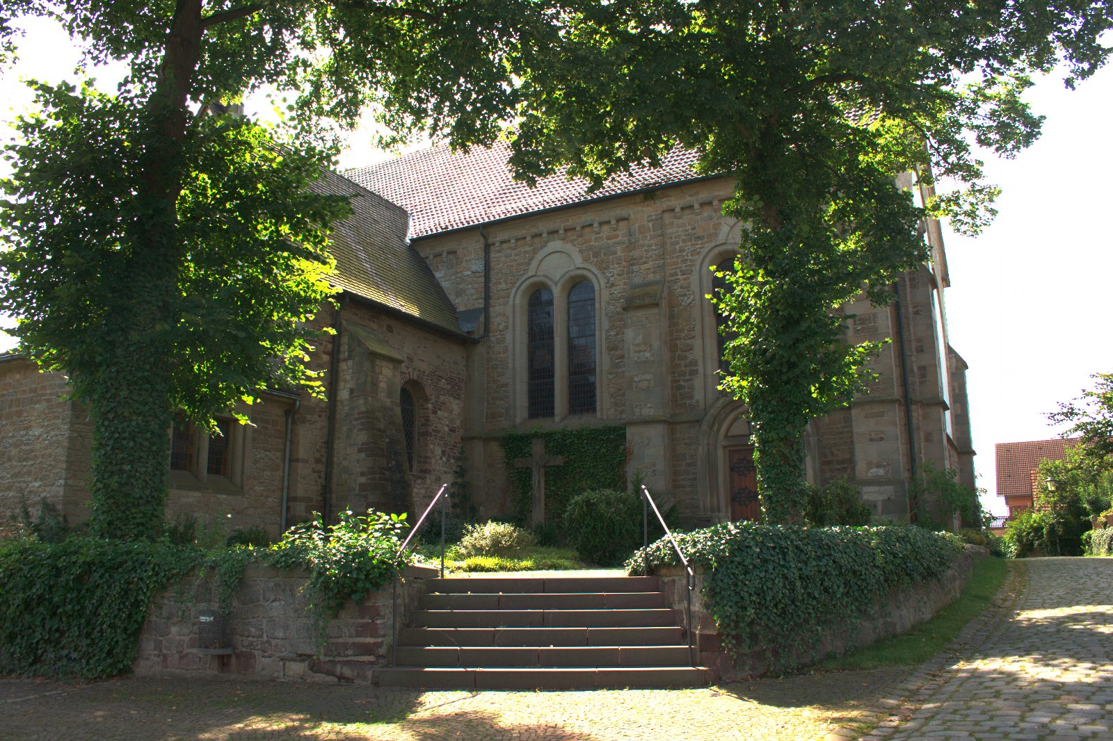 St. Liborius Church in Eissen, East Entrance